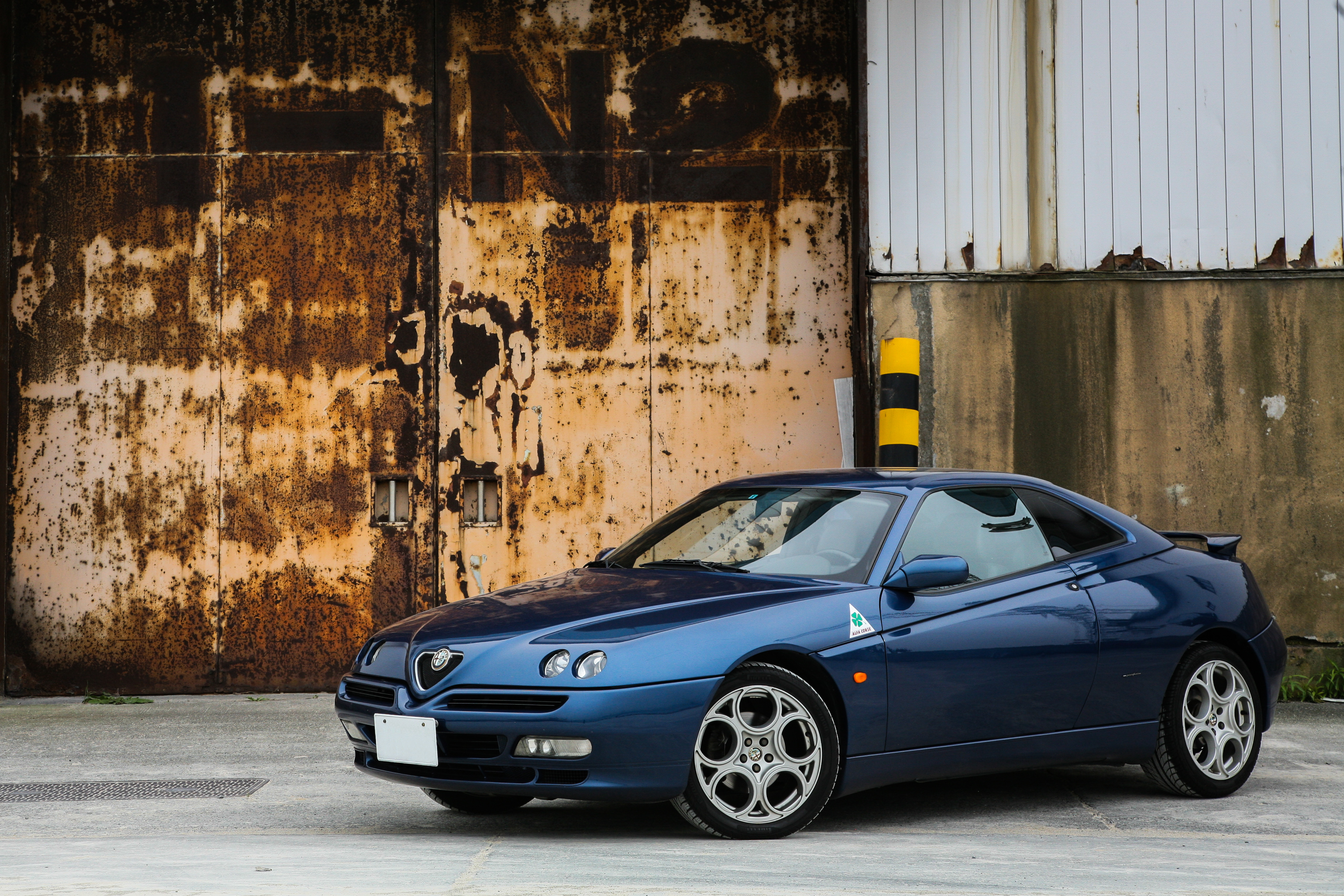 1996 Alfa Romeo GTV (2.0 V6 TB)